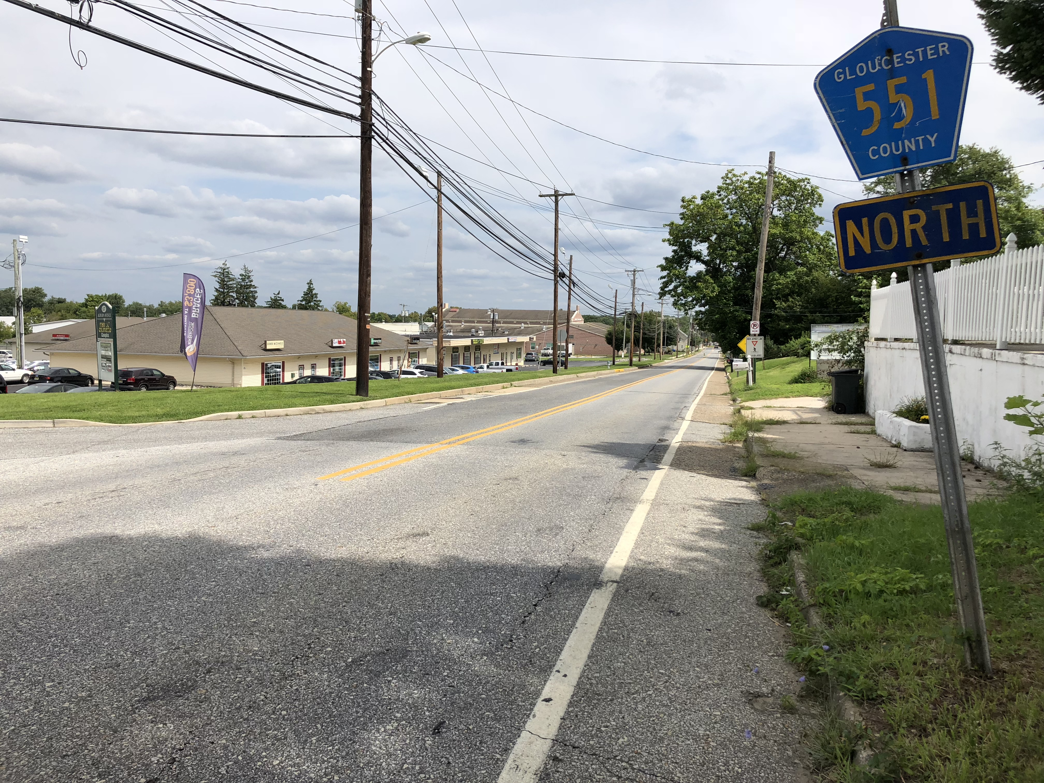 View north along Gloucester County Route 551 (Auburn Avenue) just north of Gloucester County Route 671 (Locke Avenue) in Swedesboro, Gloucester County, New Jersey